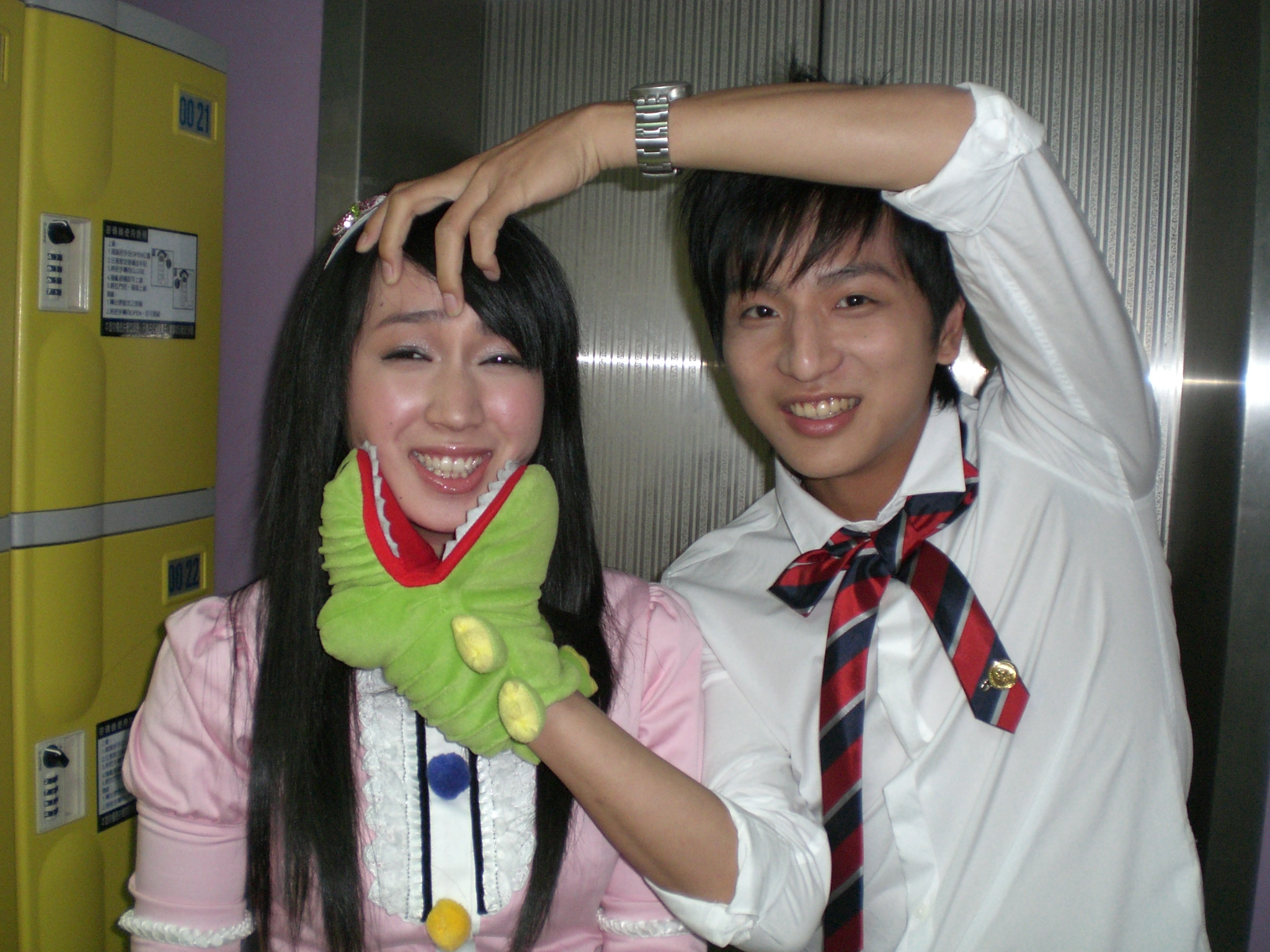 Fabien Yang&Albee Huang's photo